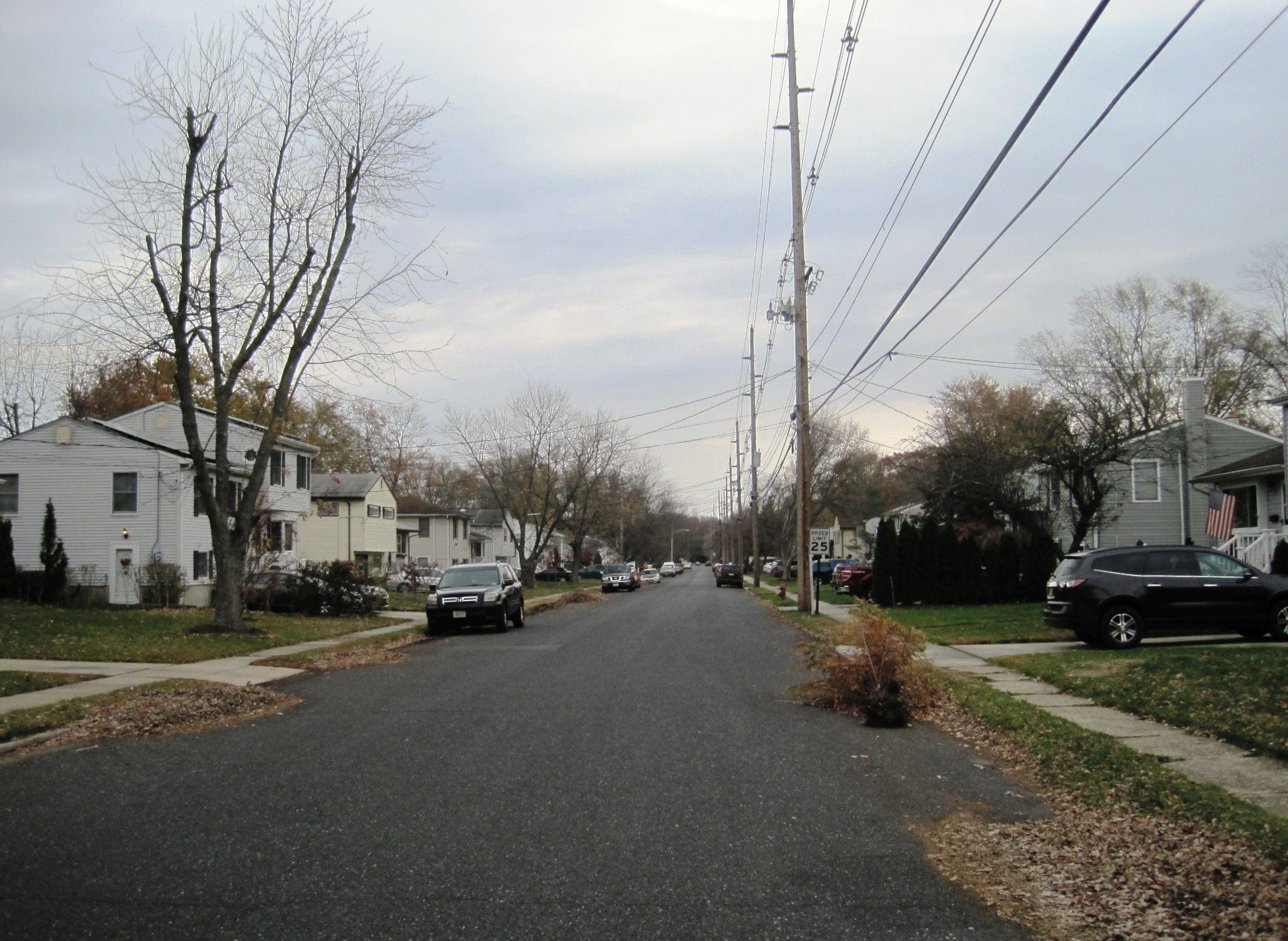 Photo showing West Deal, New Jersey, an unincorporated community within Ocean Township, Monmouth County. Photo taken along eastbound Darlene Avenue.